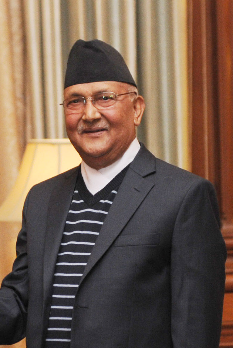 KP Oli